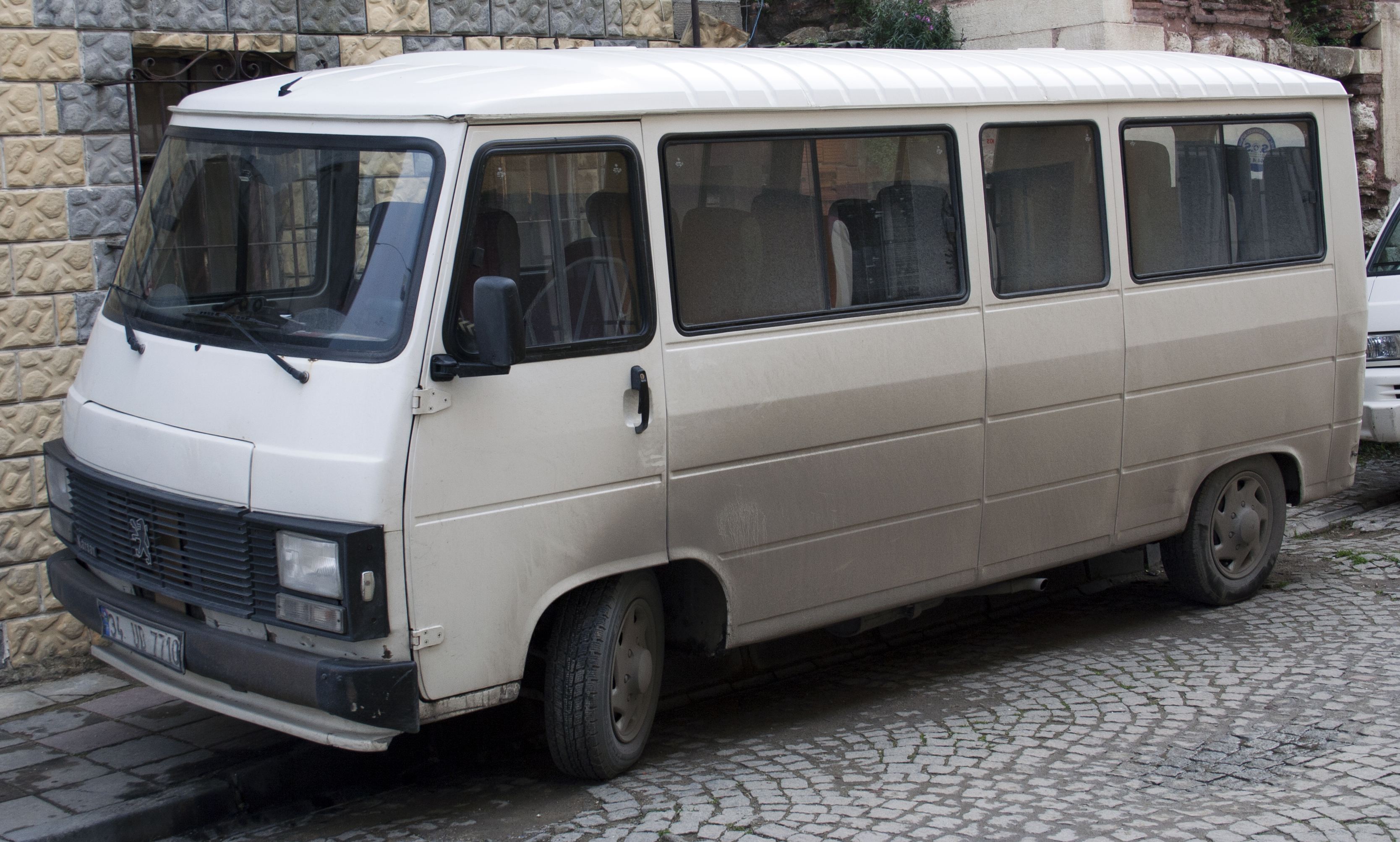 Peugeot J9, Karsan-built.